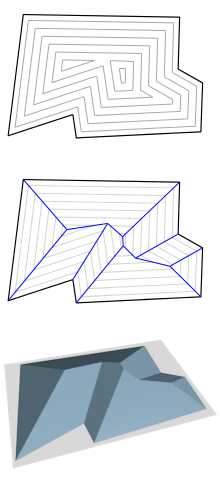 The definition of a straight skeleton of a polygon: the wavefront, the straight skeleton and the roof model